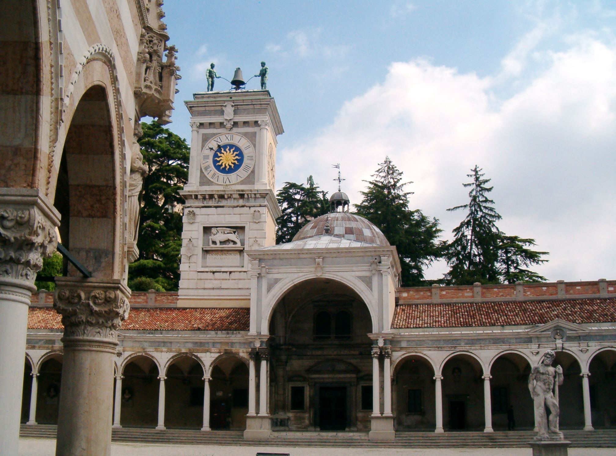 Udine, Italy Loggia e Tempietto di San Giovanni (1533), Piazza Libertà